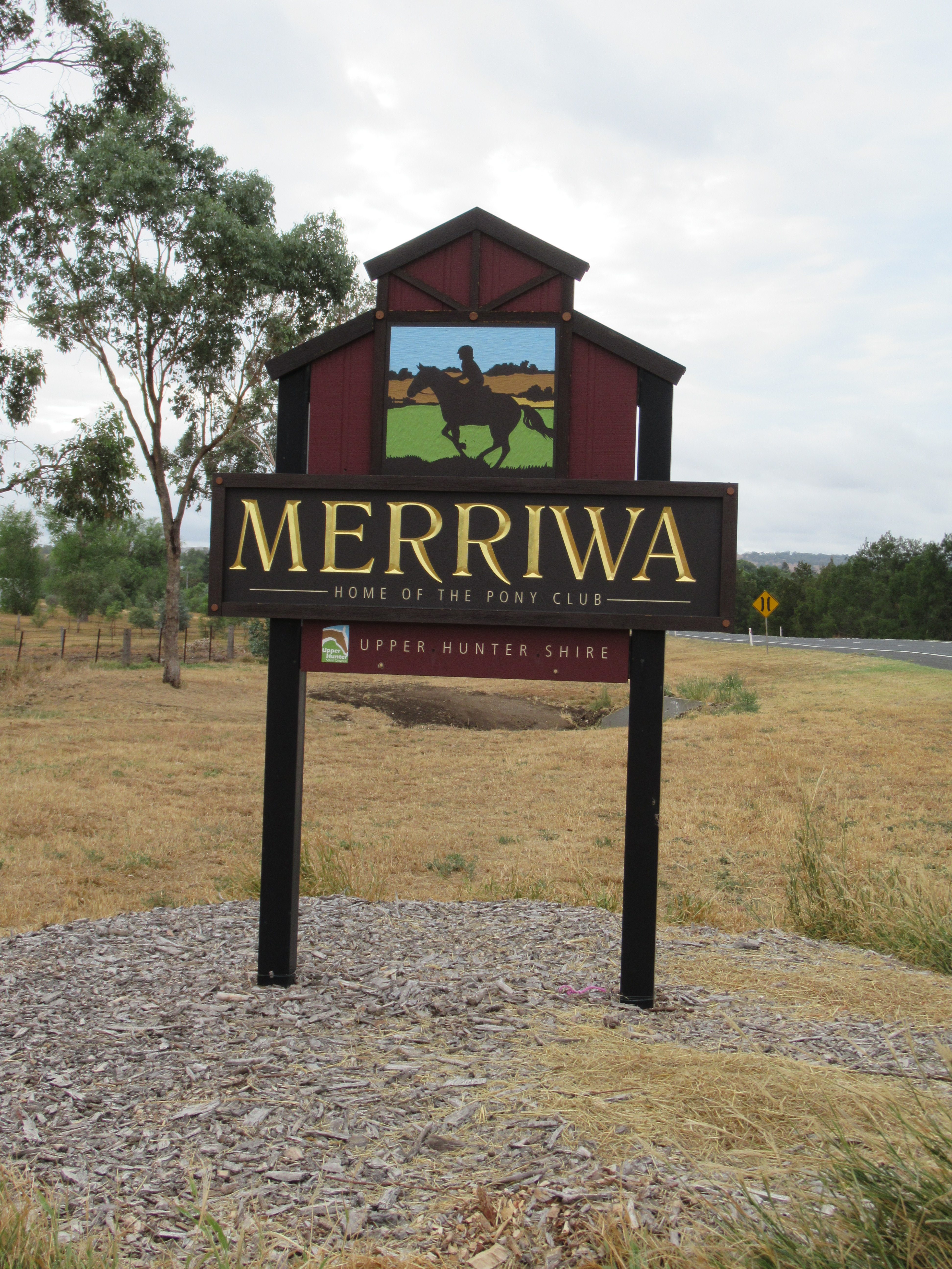 Entrance sign for the town of Merriwa, NSW. Sub text reads: Home of the Pony Club